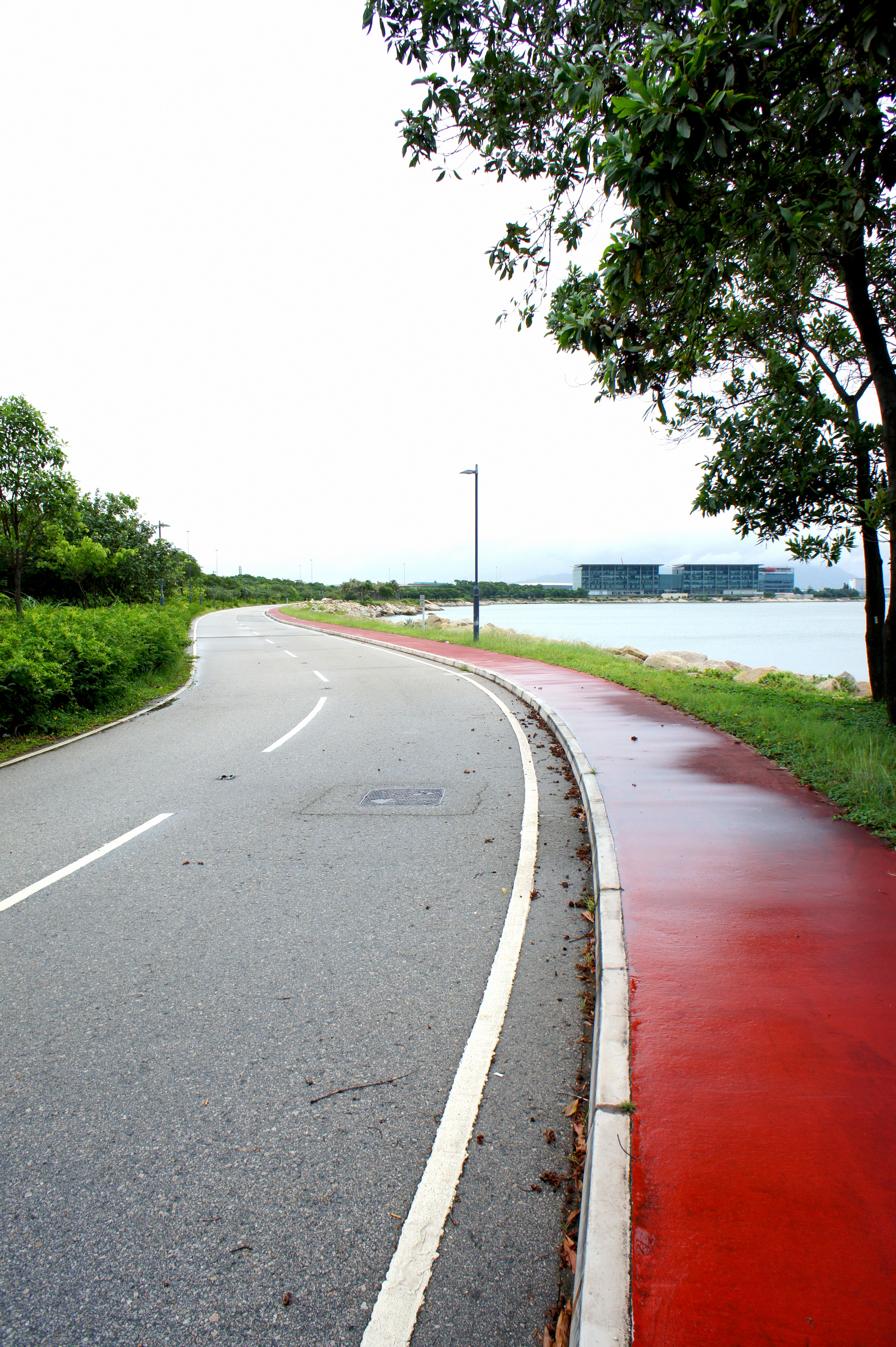 Kwo Lo Wan road and airport trail, Chek Lap Kok, Hong Kong. The building in the far end are Dragonair /CNAX (Group) Building.